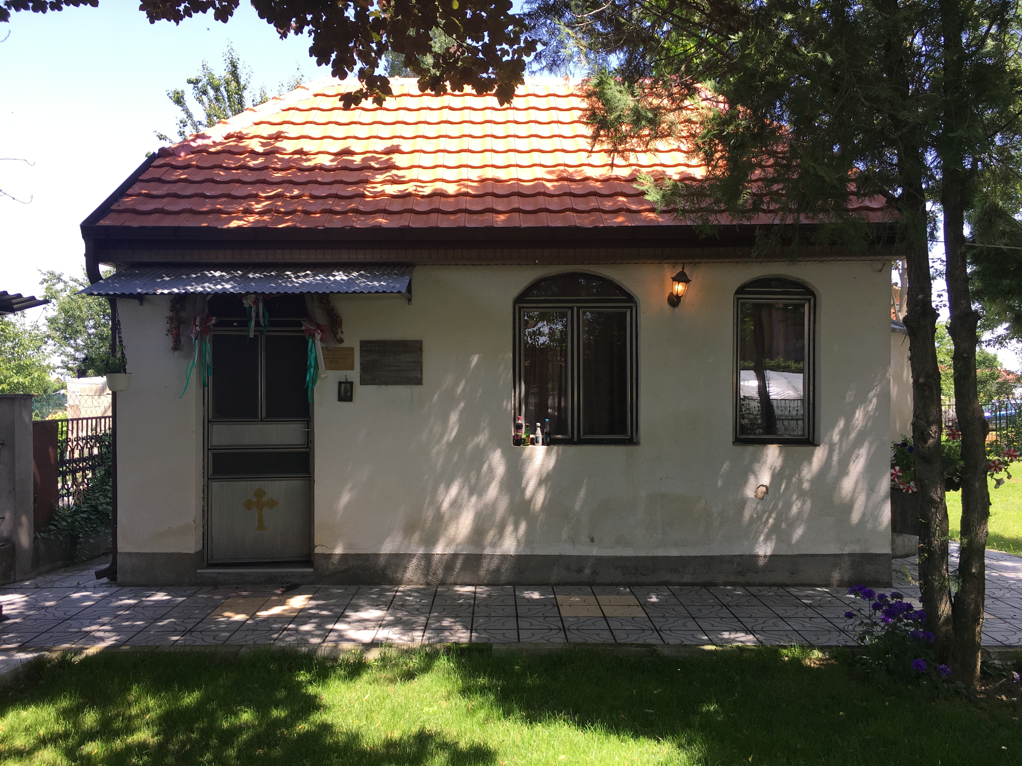 St. Petka Church in the village of Dolno Orizari